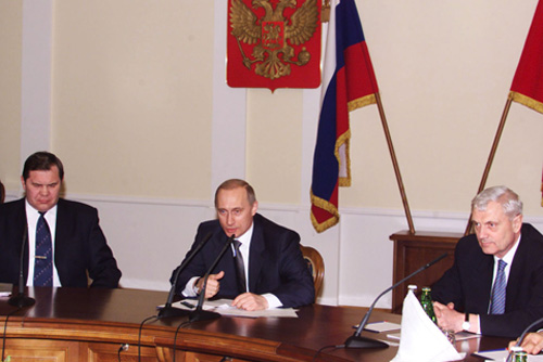 KRASNOYARSK. President Putin with governor of the Krasnoyarsk Region Alexander Lebed (left) and presidential envoy to the Siberian Federal District Leonid Drachevsky, attending a meeting to discuss the socio-economic development of the Krasnoyarsk Region.